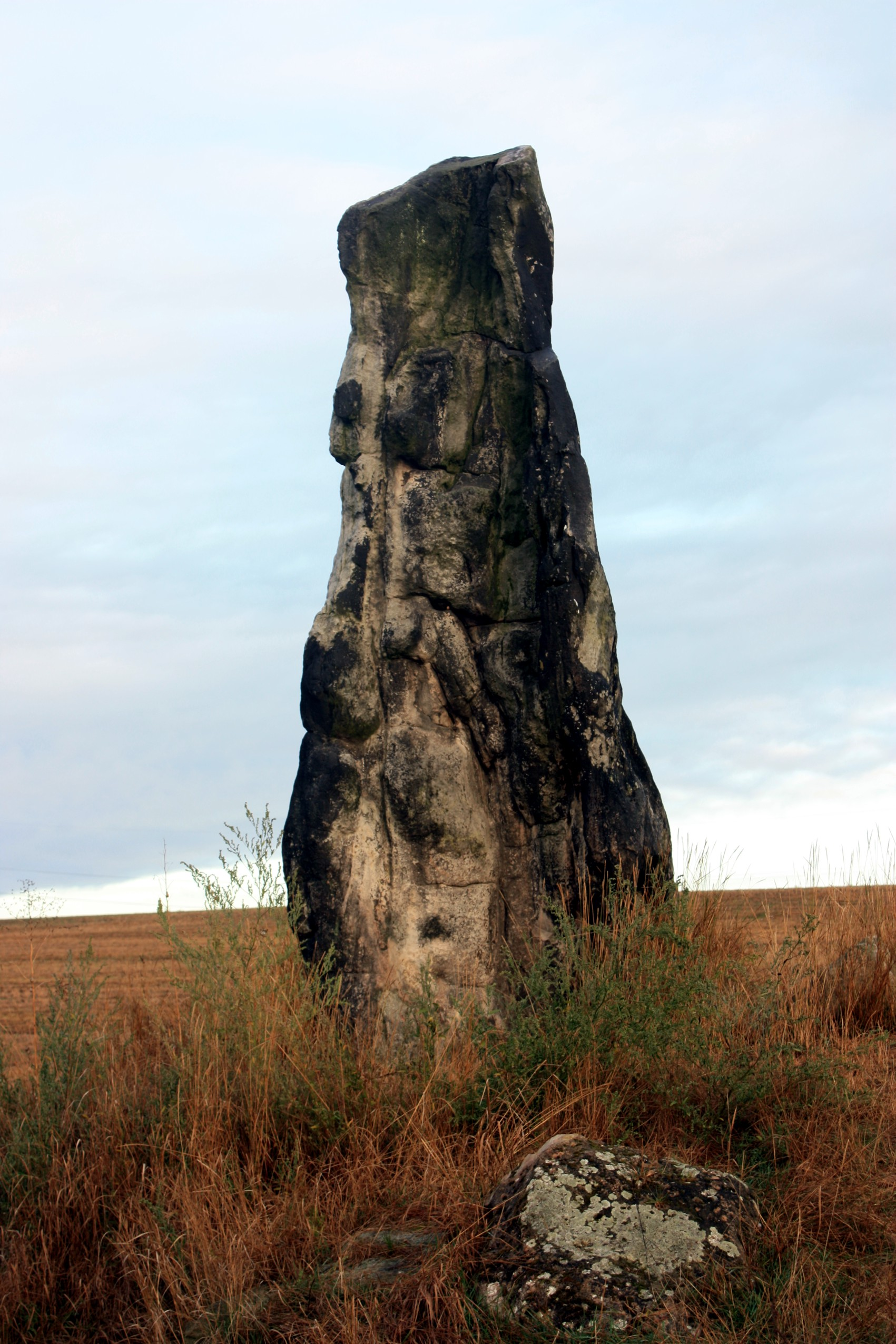 Halle-Dölau, the menhir "stone Virgin"